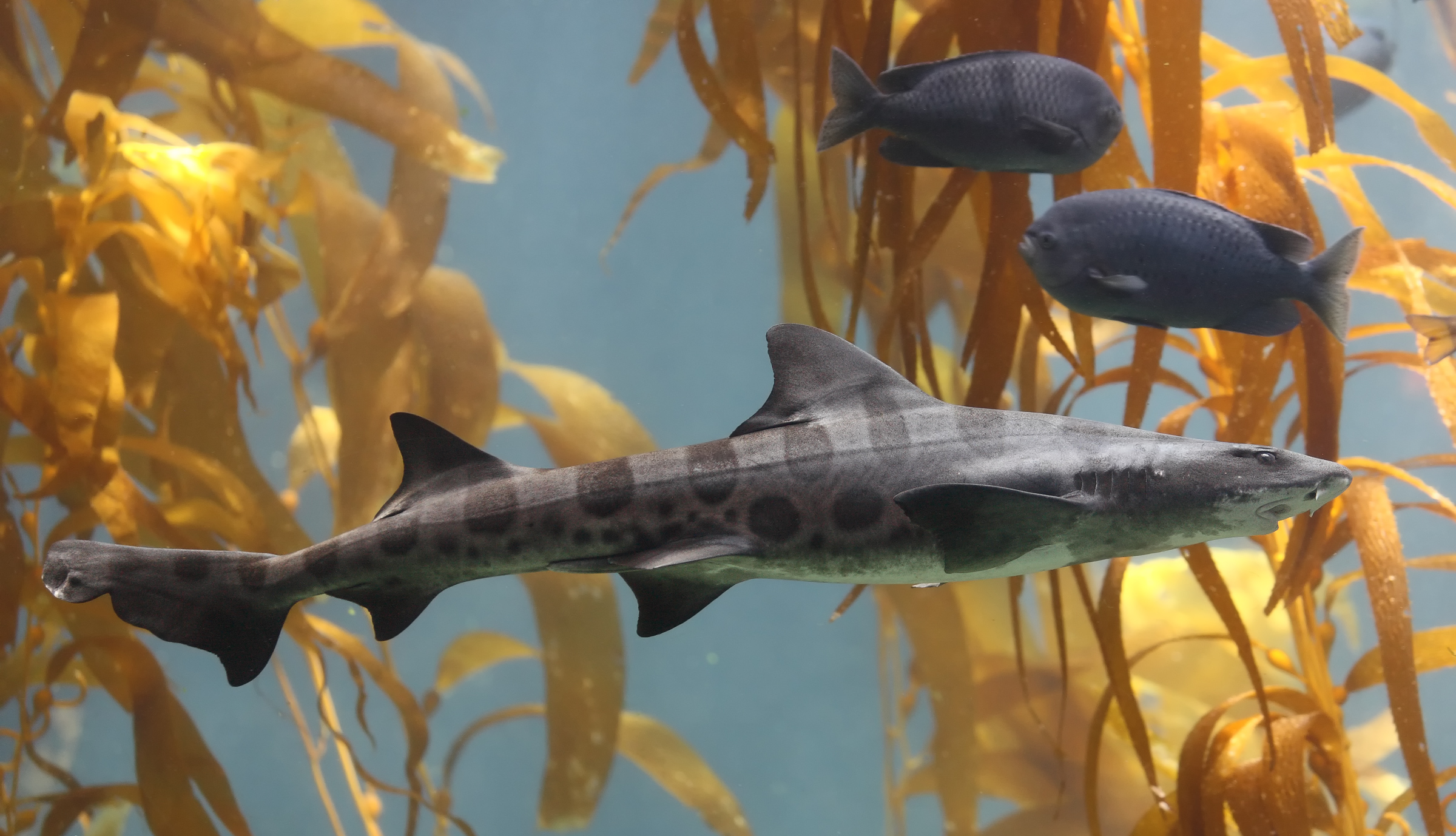 A leopard shark (Triakis semifasciata) and two blacksmith damselfish (Chromis punctipinnis), swimming in a kelp forest in the 70,000 gallon (approx. 265,000 litre) kelp tank at Scripps Aquarium in La Jolla, California, United States